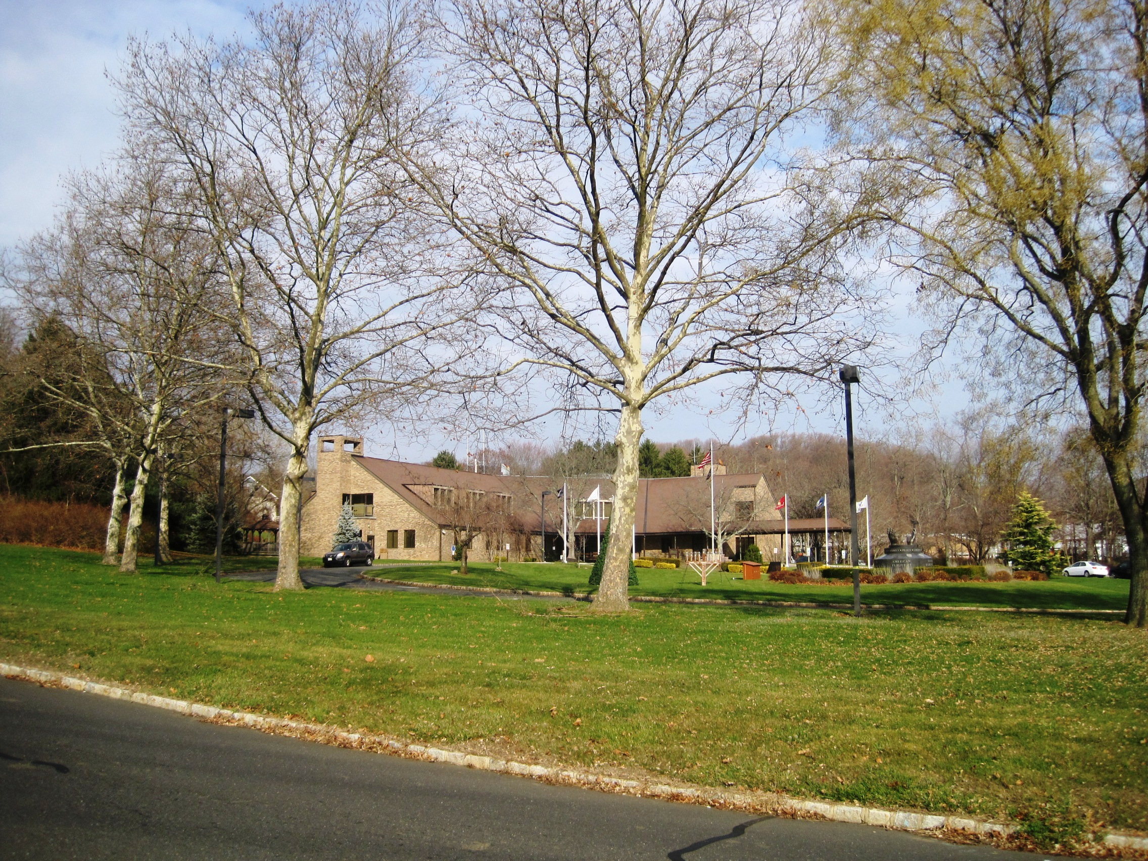 Photo of the Holmdel Township, New Jersey town hall in the Crawfords Corner section of the township. Photo taken on Crawfords Corner Road approaching Holmdel Road (County Route 4).